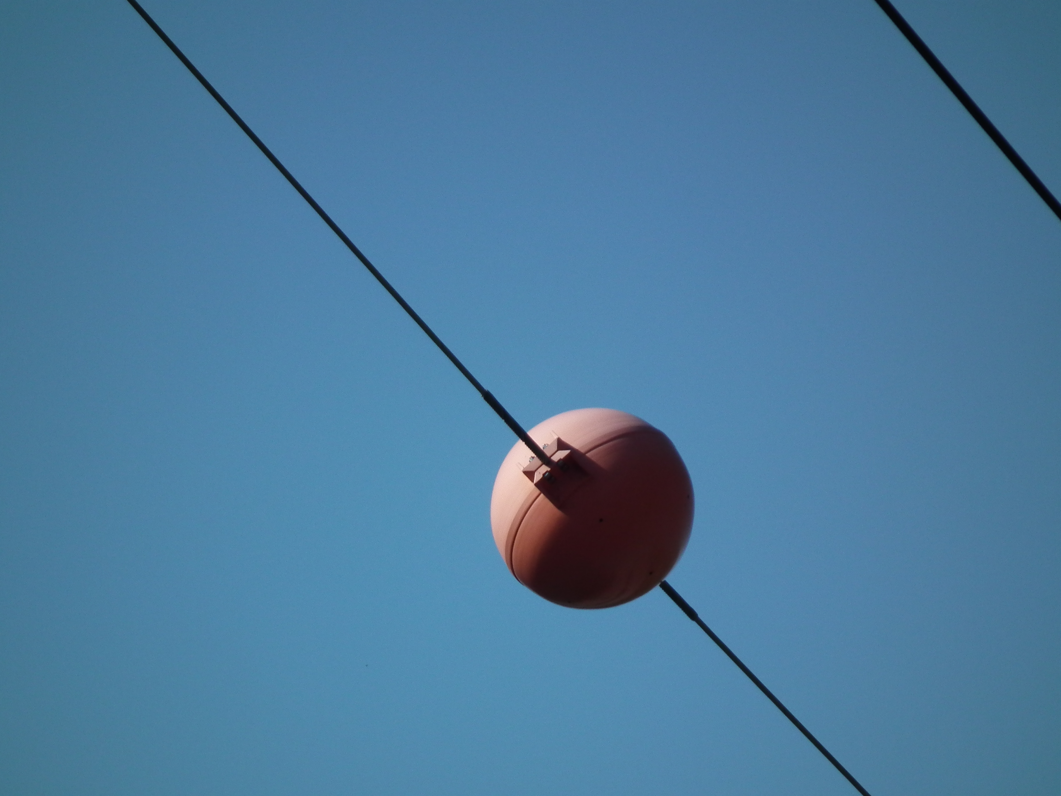 wire marker at a high-voltage power line over the Bundesautobahn 17; Germany, Dresden, Roßthal